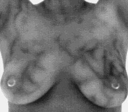 These images are of a 51 year old woman with invasive cell carcinoma. Prior to her finding the mass, she had 18-20 mammograms, she never smoked, took BC pills for four years, she has three children and no family history of BCA. This image was taken by an ICI 7320 ETI P-Series infrared camera.